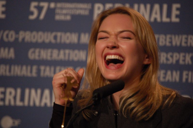 Sophia Myles at the Berlin Film Festival 2007